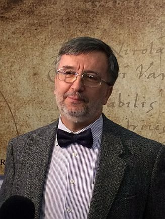 Agustín Núñez Martínez ambassador